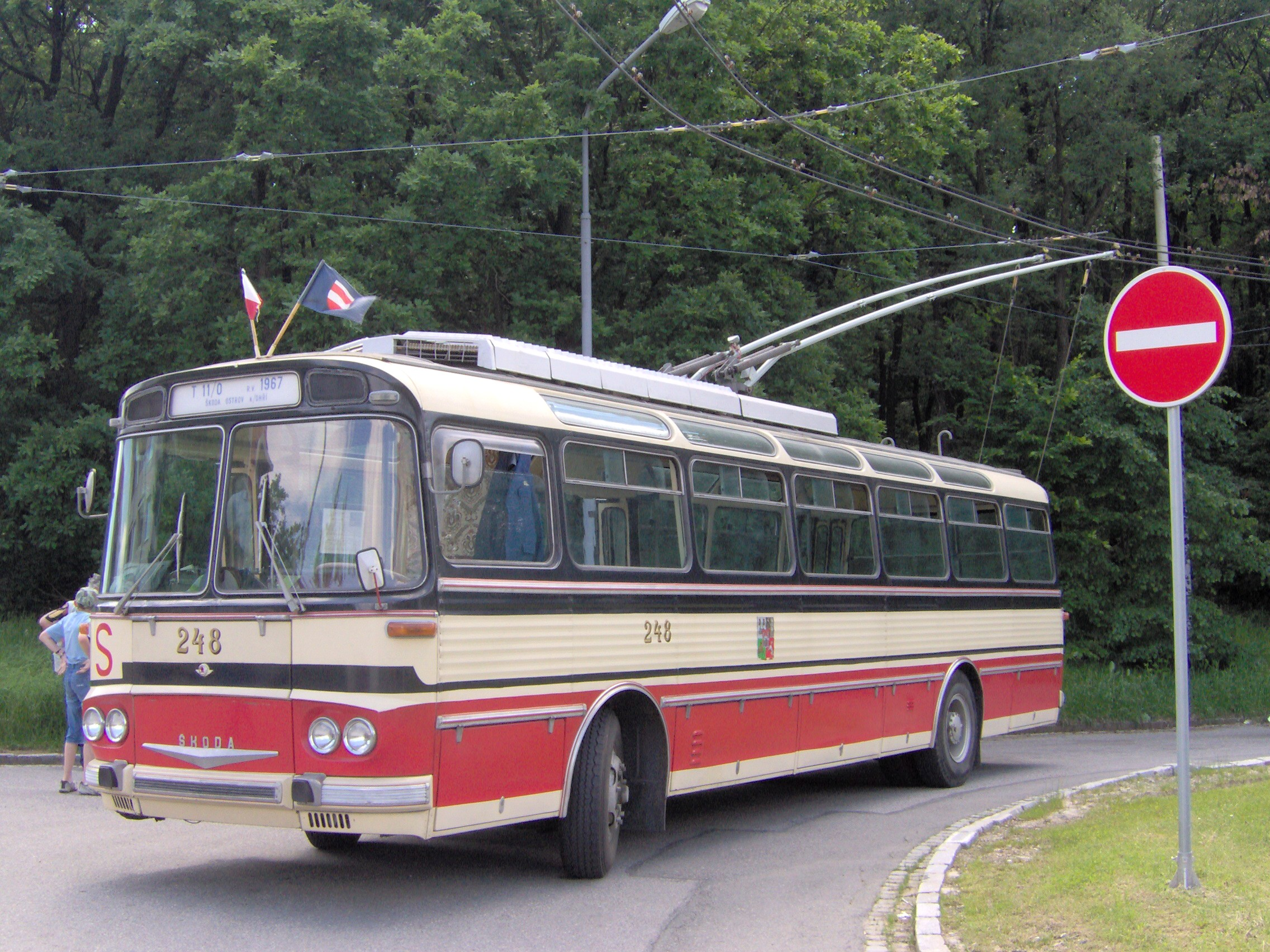 Škoda T 11 historical trolleybus, Kohoutovice, Brno, Czech Republic